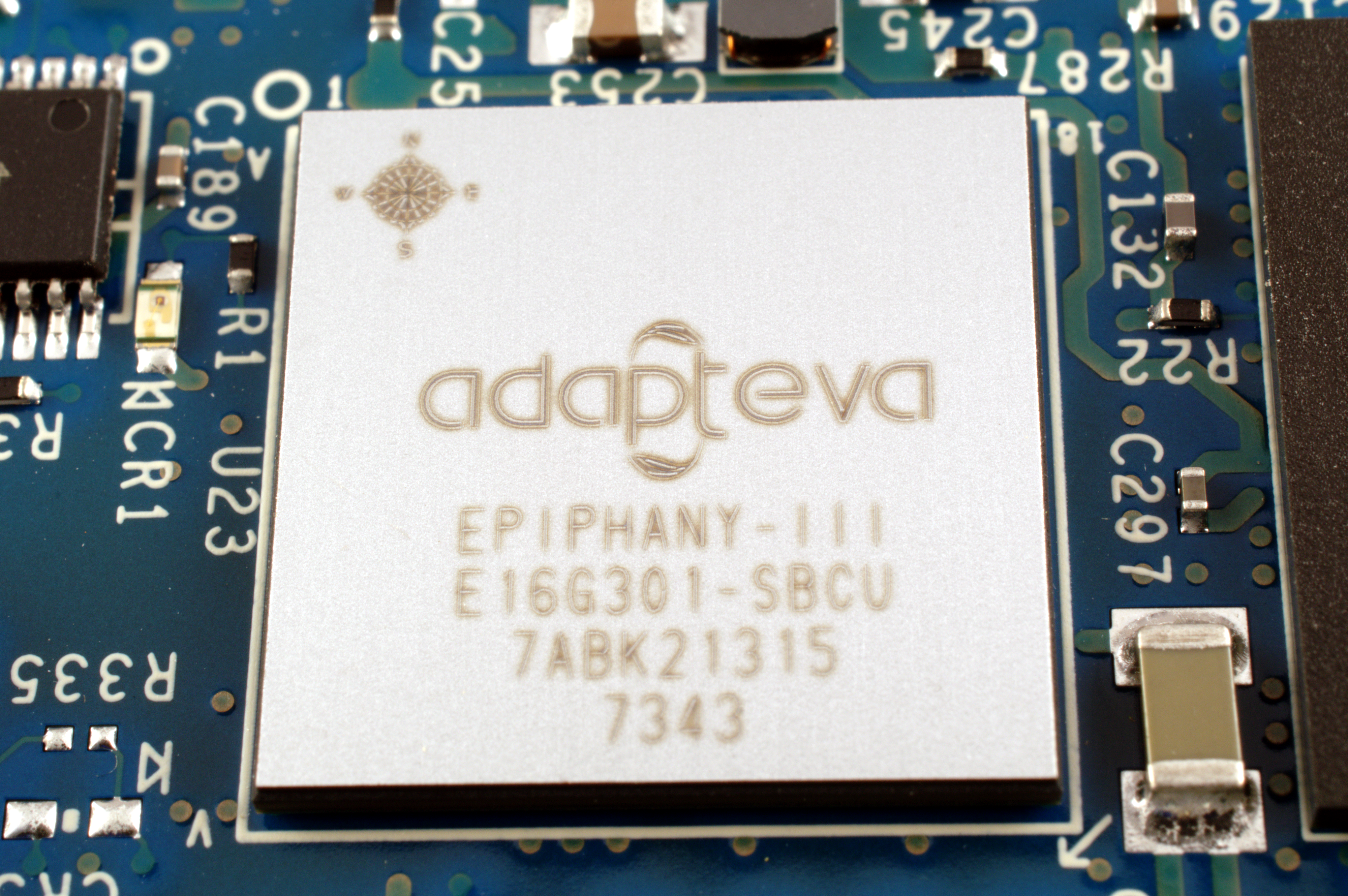 The Adapteva Parallella P1601-DK02 development board, featuring Xilinx Zynq 72010 ARM/FPGA and Adapteva's own Epiphany-III 16-core co-processor. Supplied as a review sample by RS Components.